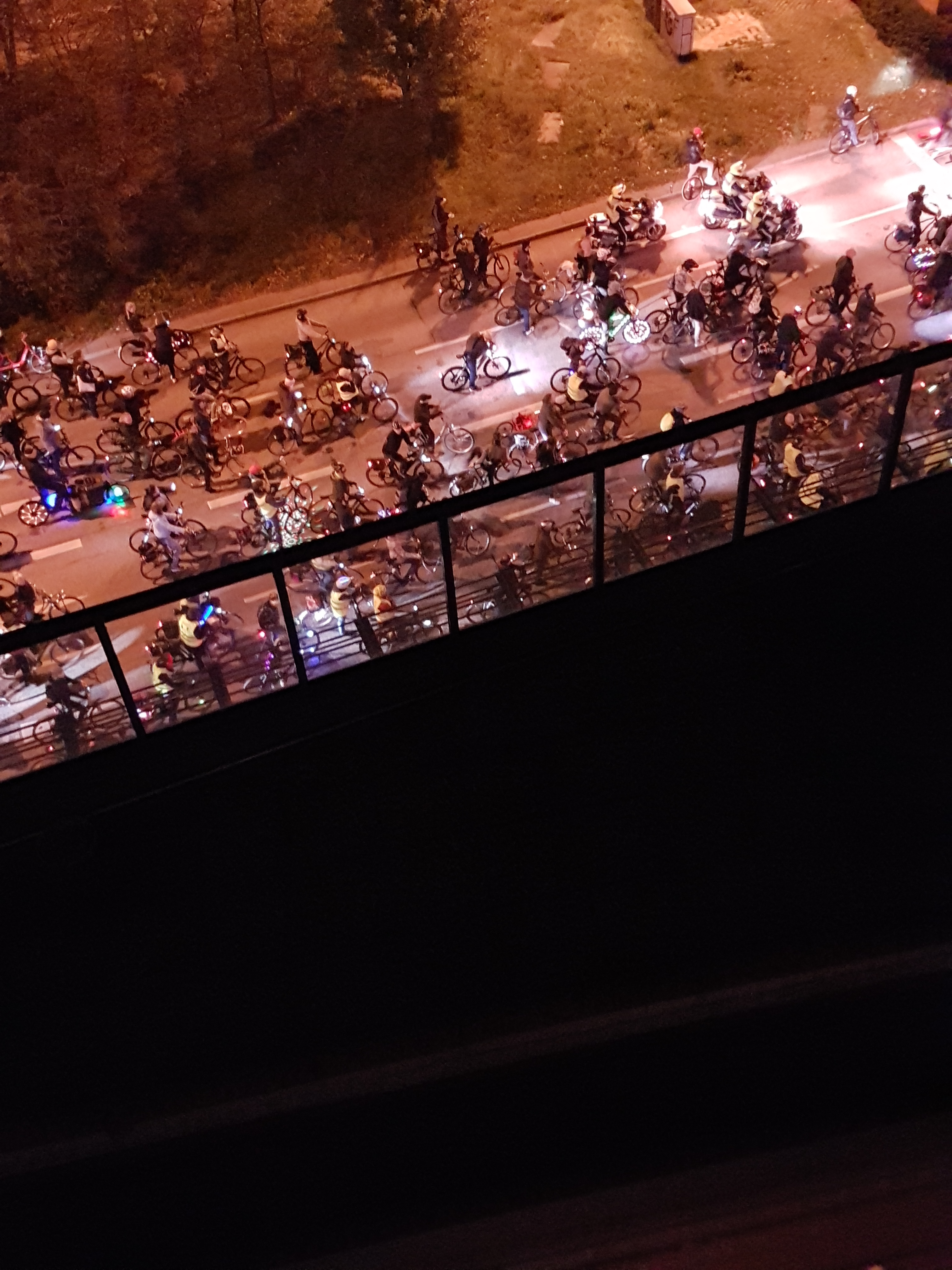 Critical Mass bycicles in Hamburg, Germany, Hamburger Straße in autumn 2019 in darkness.